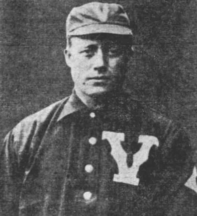 Professional baseball player Kitty Brashear